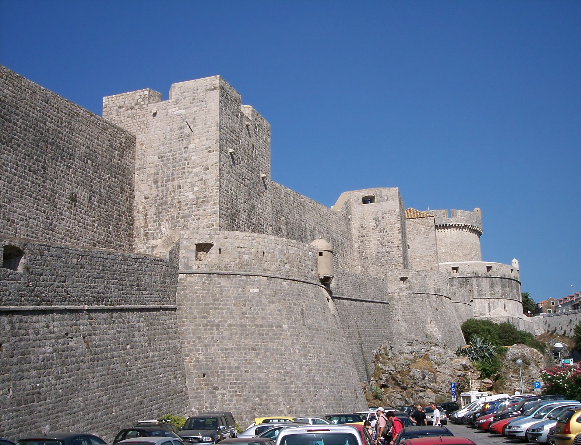 Walls of Dubrovnik (Croatia).